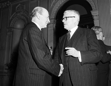 After leading a team of United Kingdom labour politicians to Russia and China in September 1954, the leader of the British Parliamentary Opposition, Mr Clement Attlee, visited Australia. In Sydney on 13 September he was given a civic welcome in the city's Town Hall. The Leader of the Federal Opposition, Dr HV Evatt (right) greets Mr Attlee